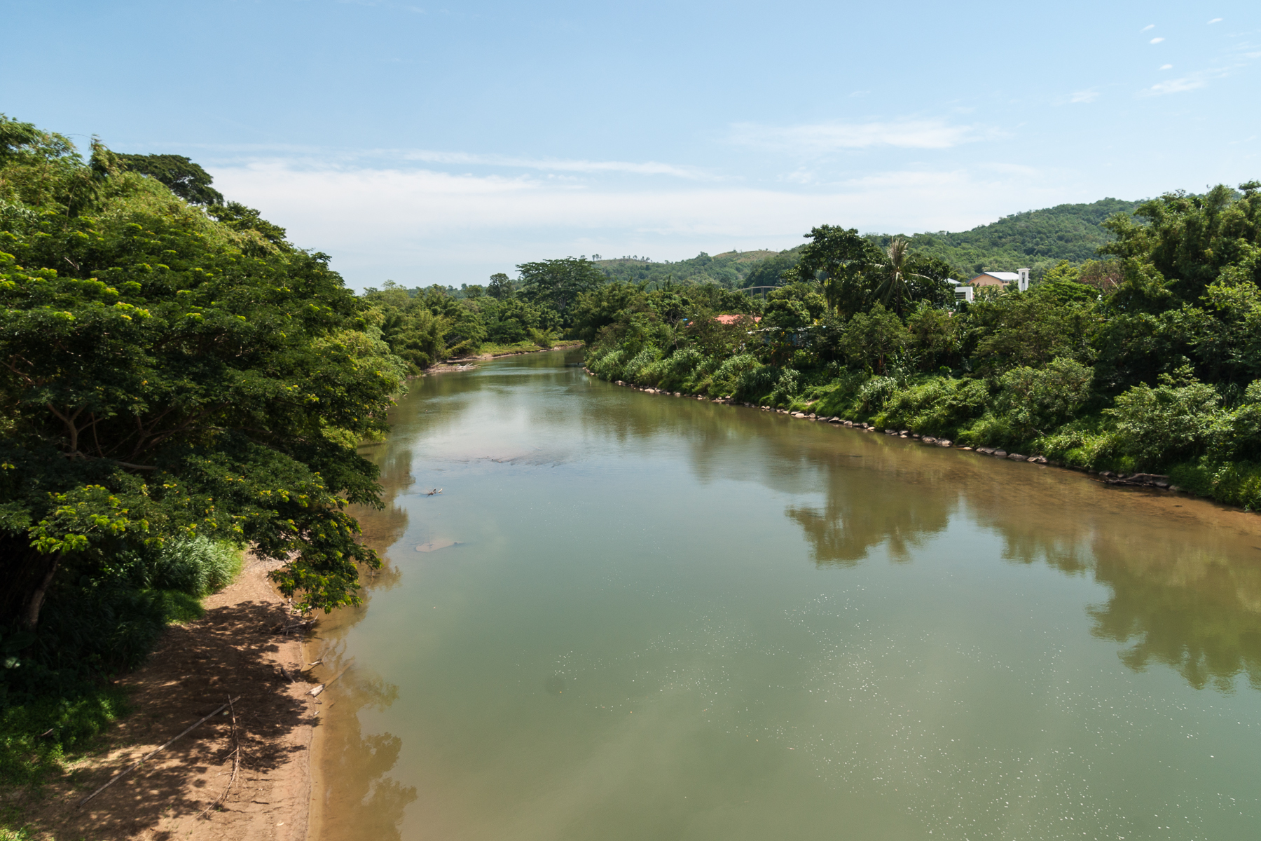 Tamparuli, Sabah: Sungai Tuaran, downstream view from swinging Bridge in Tamparuli, Sabah